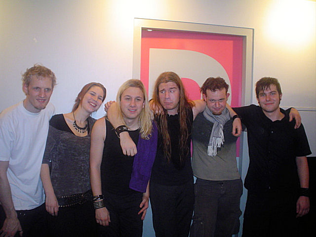 Live band of Delain